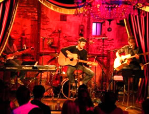 Franco-British artist MeeK live in Paris Comedy Club, 2009.